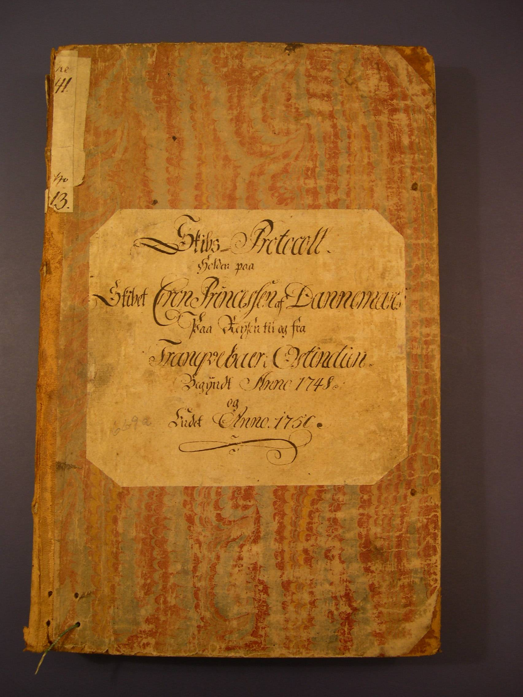 The protocol document of the second trip of the Danish ship "Crown Princess of Denmark" which is in safe-keeping at the Copenhagen International Archives. Photo taken by Palle Kvist